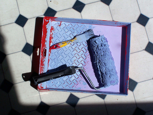 paint roller beside paint brush at paint reservoir